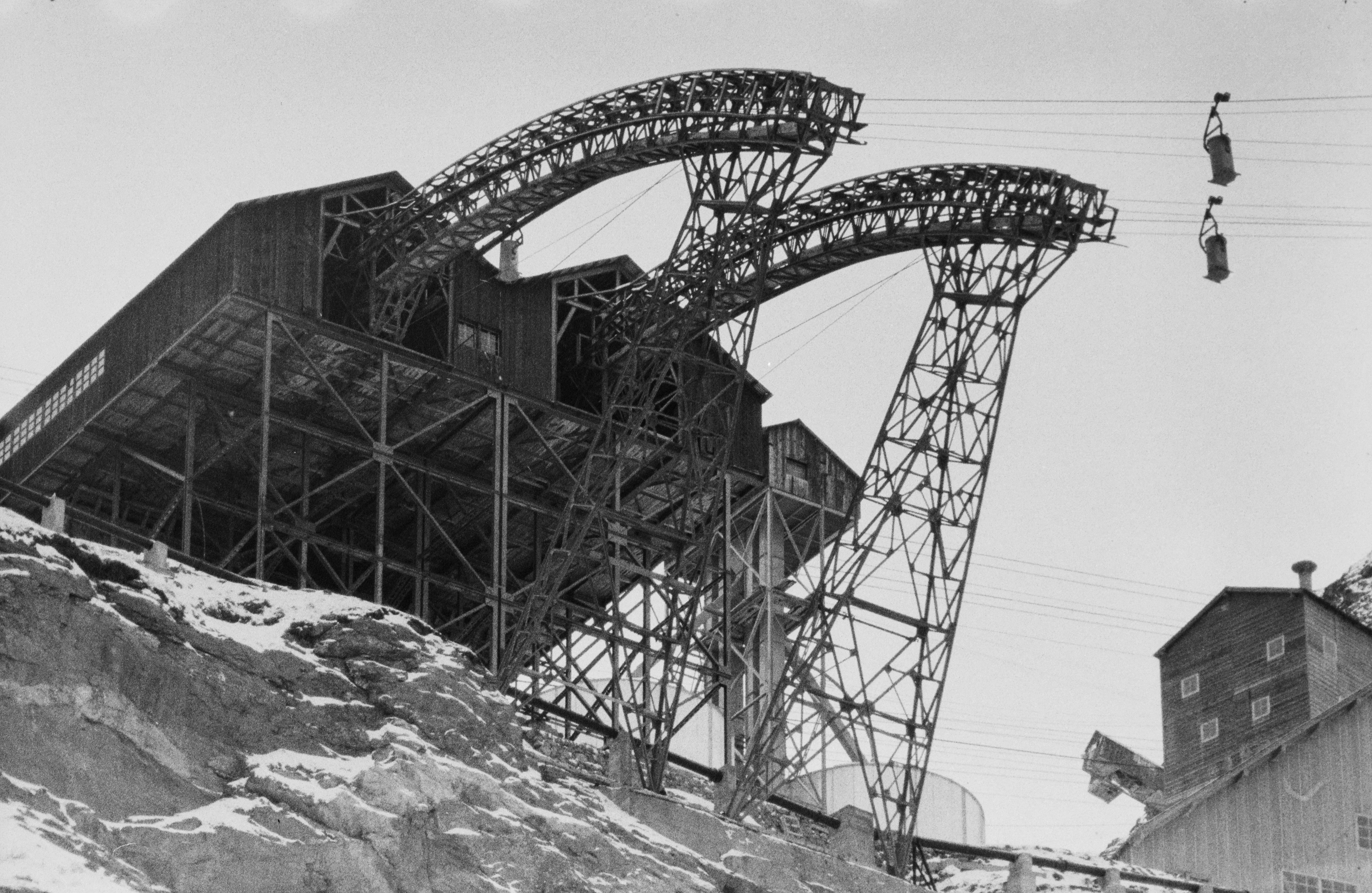 Ropeway conveyor for delivering cement to the construction of the Grande Dixence dam. Two parallel ropeways transported buckets of cement which were delivered by purpose-built railway wagons.